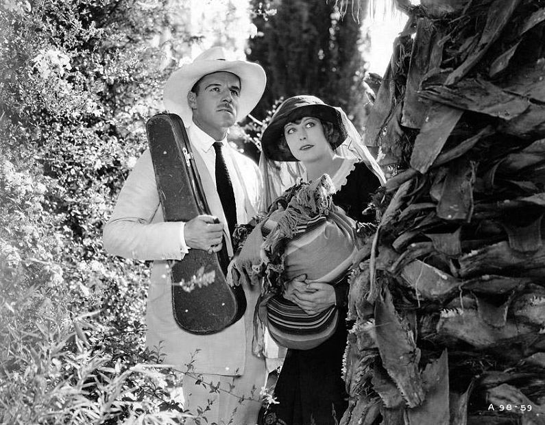 Jack Holt and Seena Owen in the American film Victory (1919) - publicity still